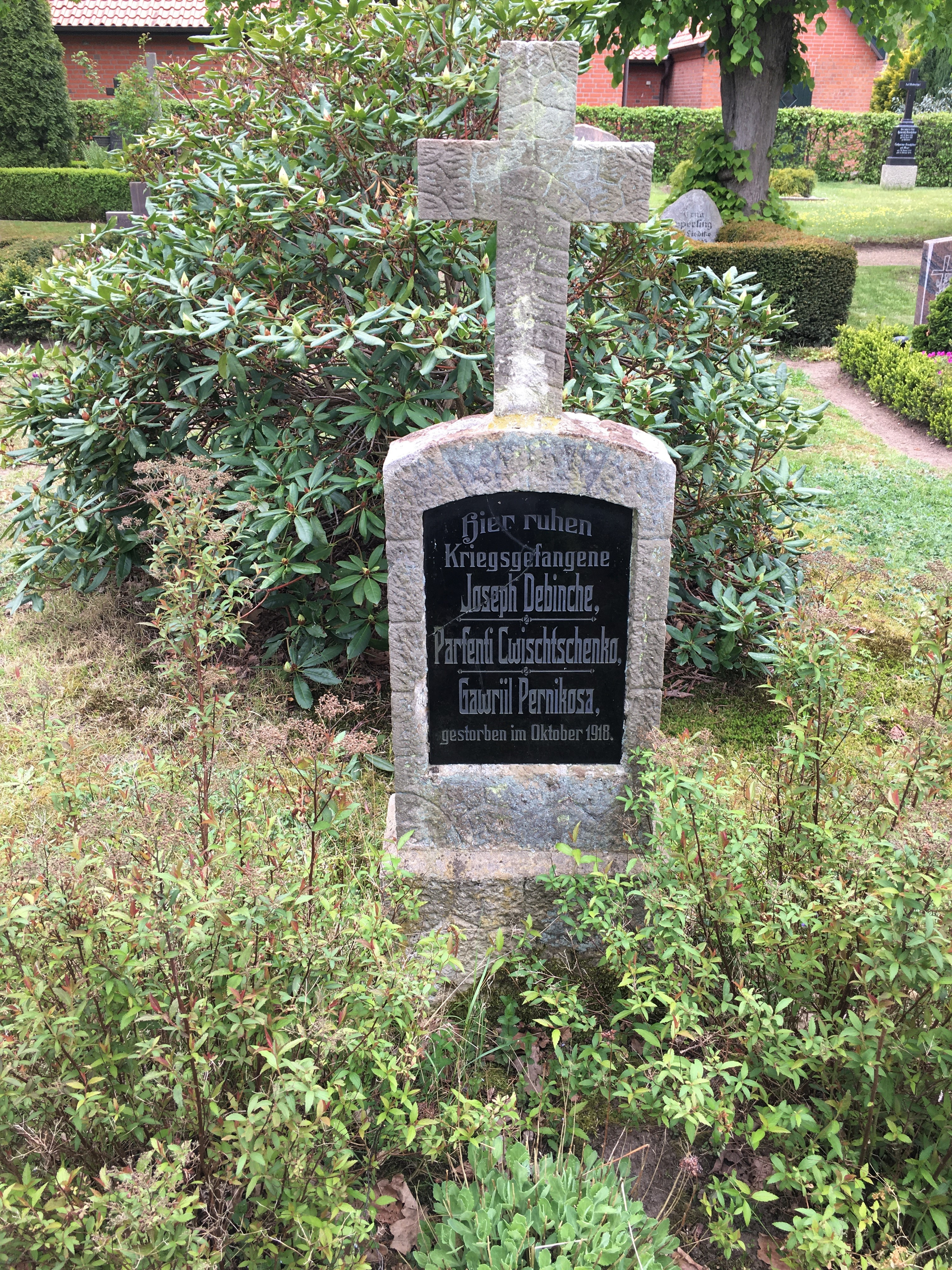 Burial place of Russian war prisoners from the First World War. "Here lie Joseph Debinche, Parfenti Cvichenko, Gavriil Pernicosa, who died in October 1918."